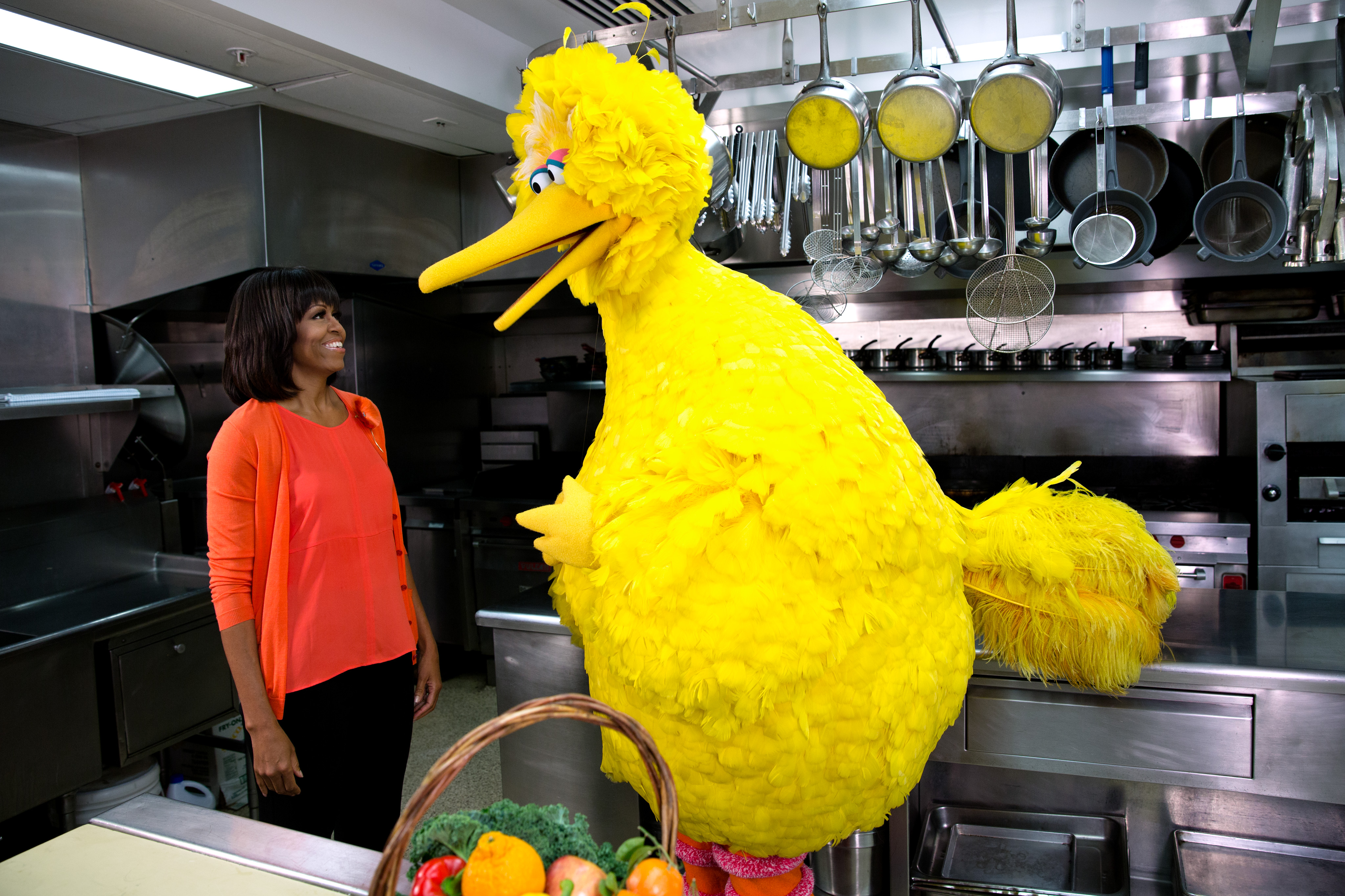 First Lady Michelle Obama participates in a “Let’s Move!” and "Sesame Street" public service announcement taping with Big Bird in the White House Kitchen, Feb. 13, 2013. (Official White House Photo by Lawrence Jackson) This official White House photograph is being made available only for publication by news organizations and/or for personal use printing by the subject(s) of the photograph. The photograph may not be manipulated in any way and may not be used in commercial or political materials, advertisements, emails, products, promotions that in any way suggests approval or endorsement of the President, the First Family, or the White House.